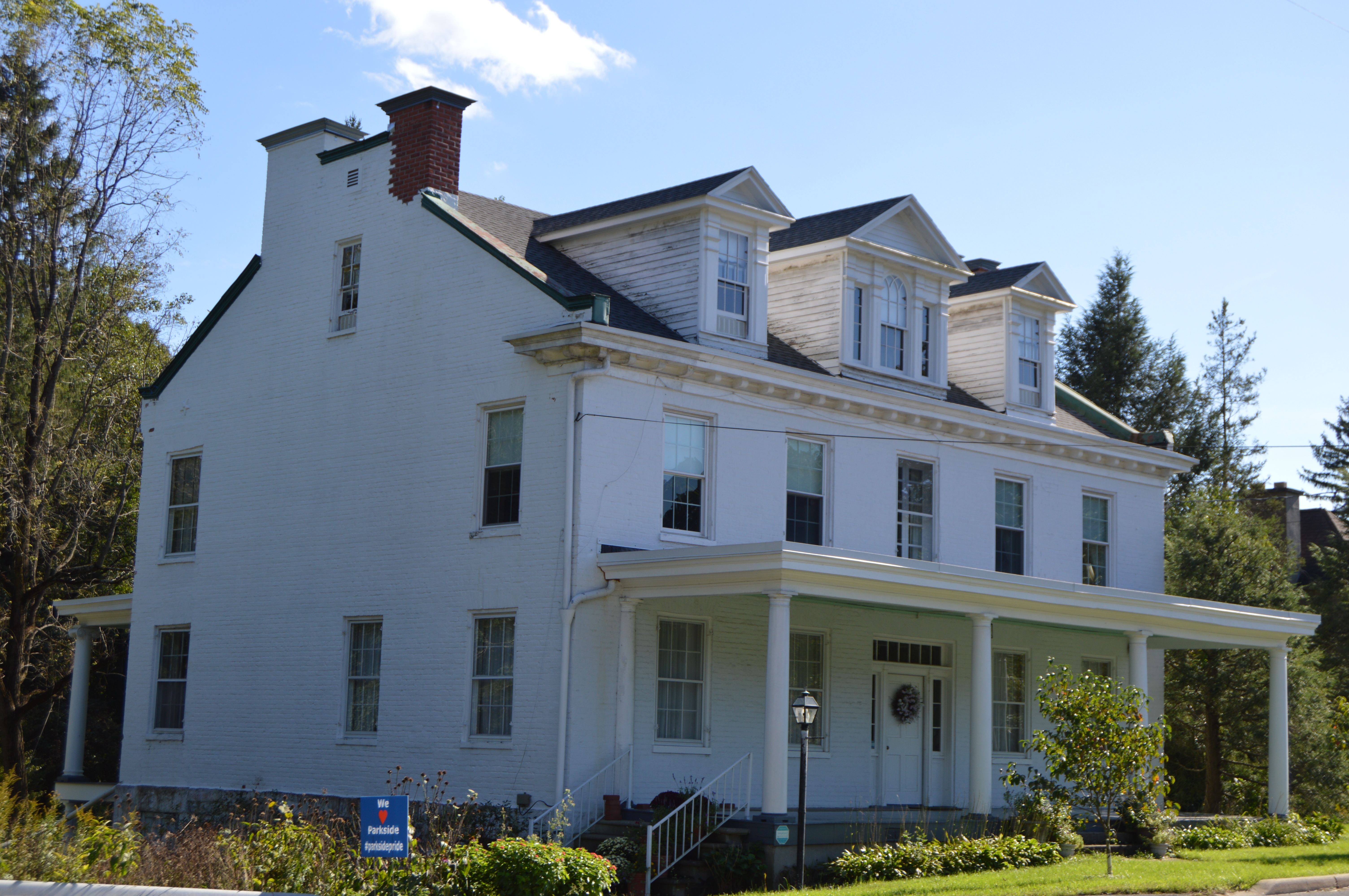 Front and northeastern side of the Four Mile House, located along the old National Road at La Vale in Allegany County, Maryland, United States. Built in about 1840, it is one of the Inns on the National Road that are listed on the National Register of Historic Places.